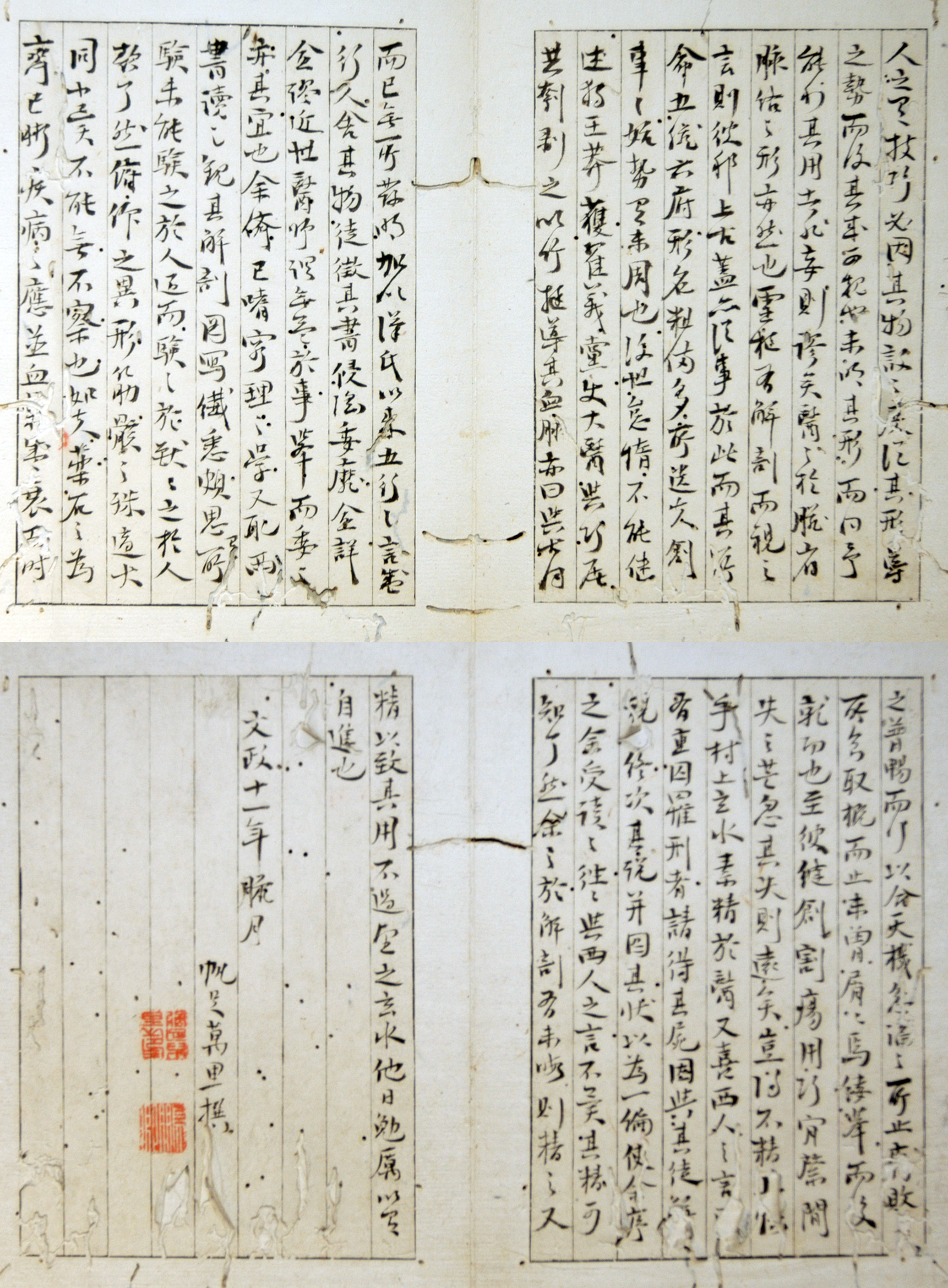 Dedication (preface) written in 1828 by the Japanese Confucianist Hoashi Banri for a report about the dissection of a human corpse by his disciple Murakami Gensui (Murakami Ikashiryōkan, Nakatsu-shi)